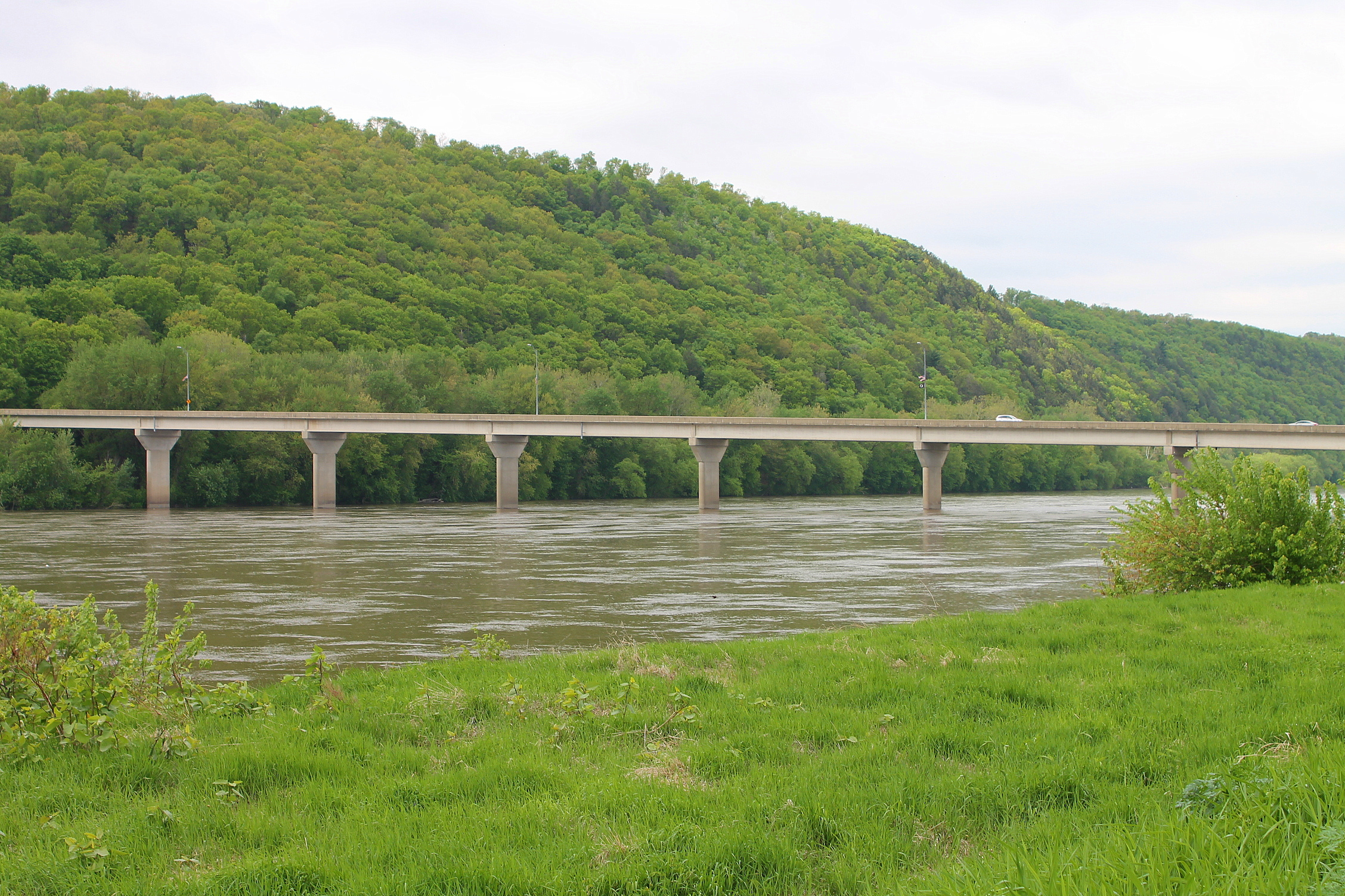 A bridge carrying Pennsylvania Route 487 over the Susquehanna River in Bloomsburg. Built in the 1980s on the site of the former East Bloomsburg Bridge